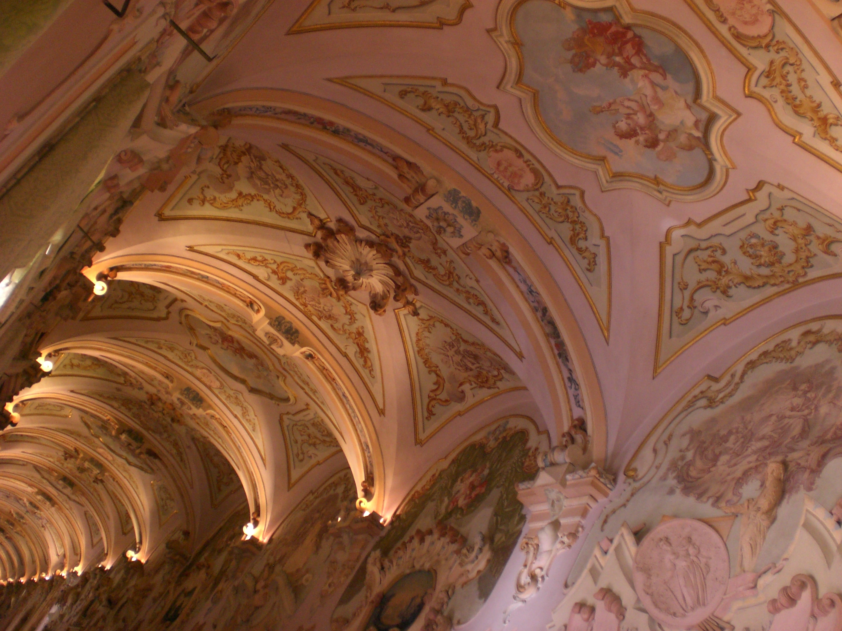 Jesi, Pianetti Palace, Gallery ceiling